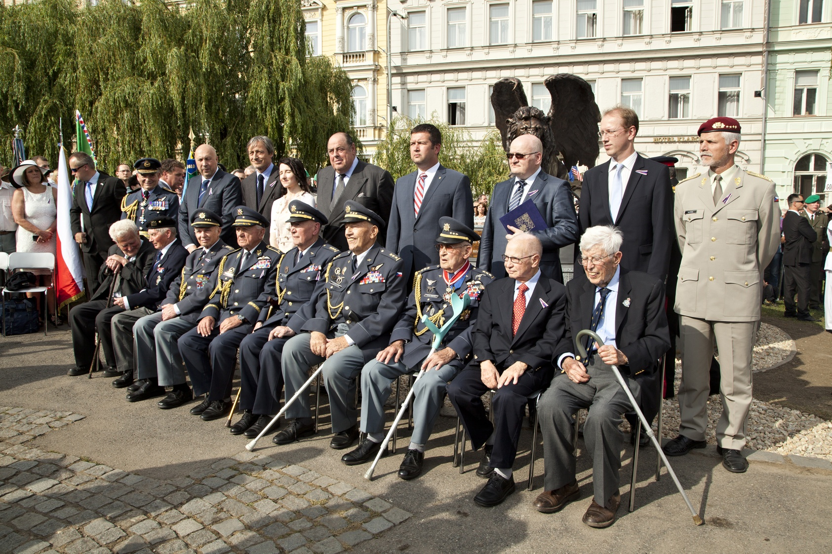 The ceremonial unveiling of Winged lion (dedicated to Royal Air Force) in Prague Klarov (Czech republic) on June 17, 2014